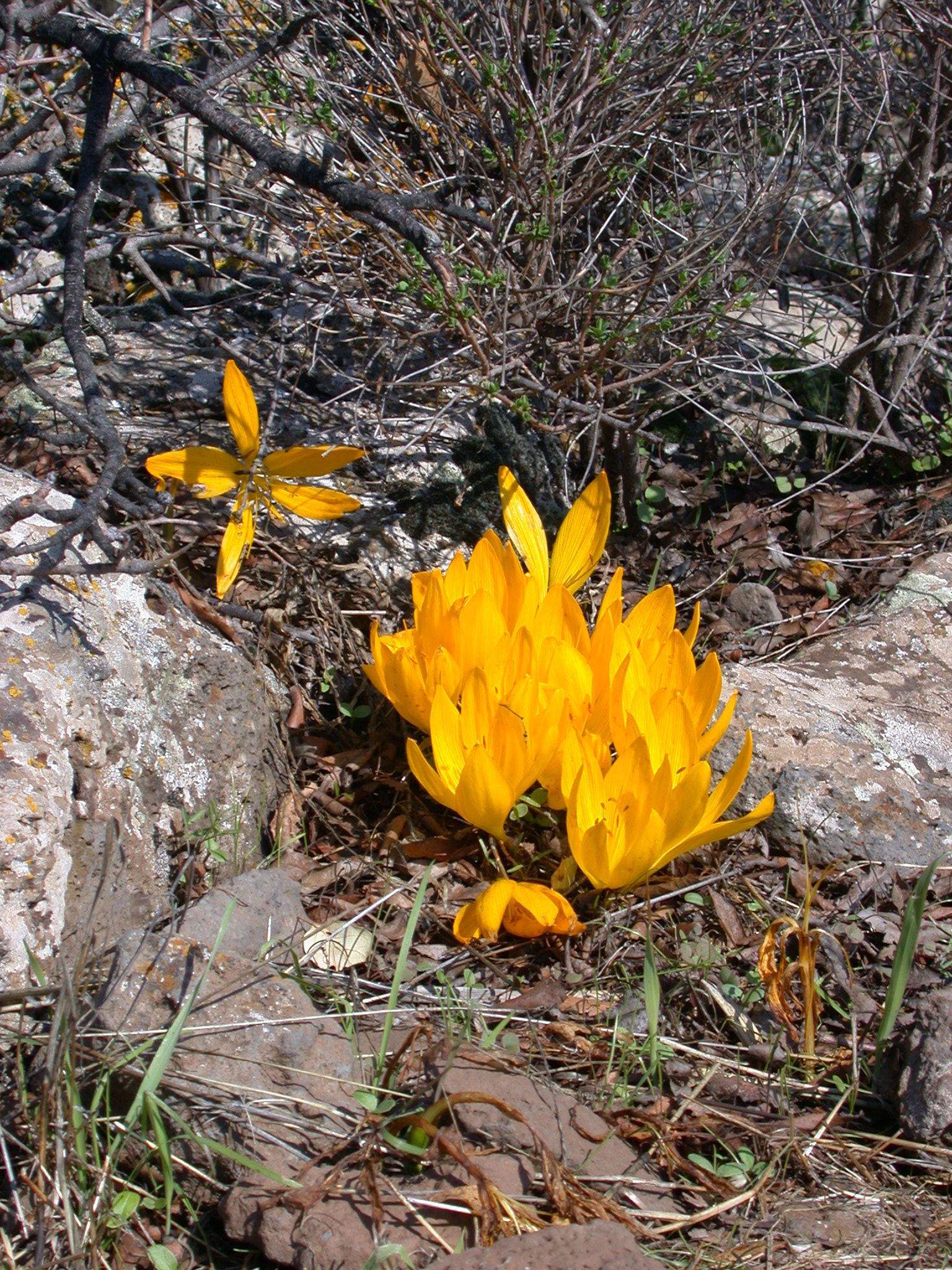 Sternbergia clusiana, Reches Chezka, Golan Heights, November 8, 2006.